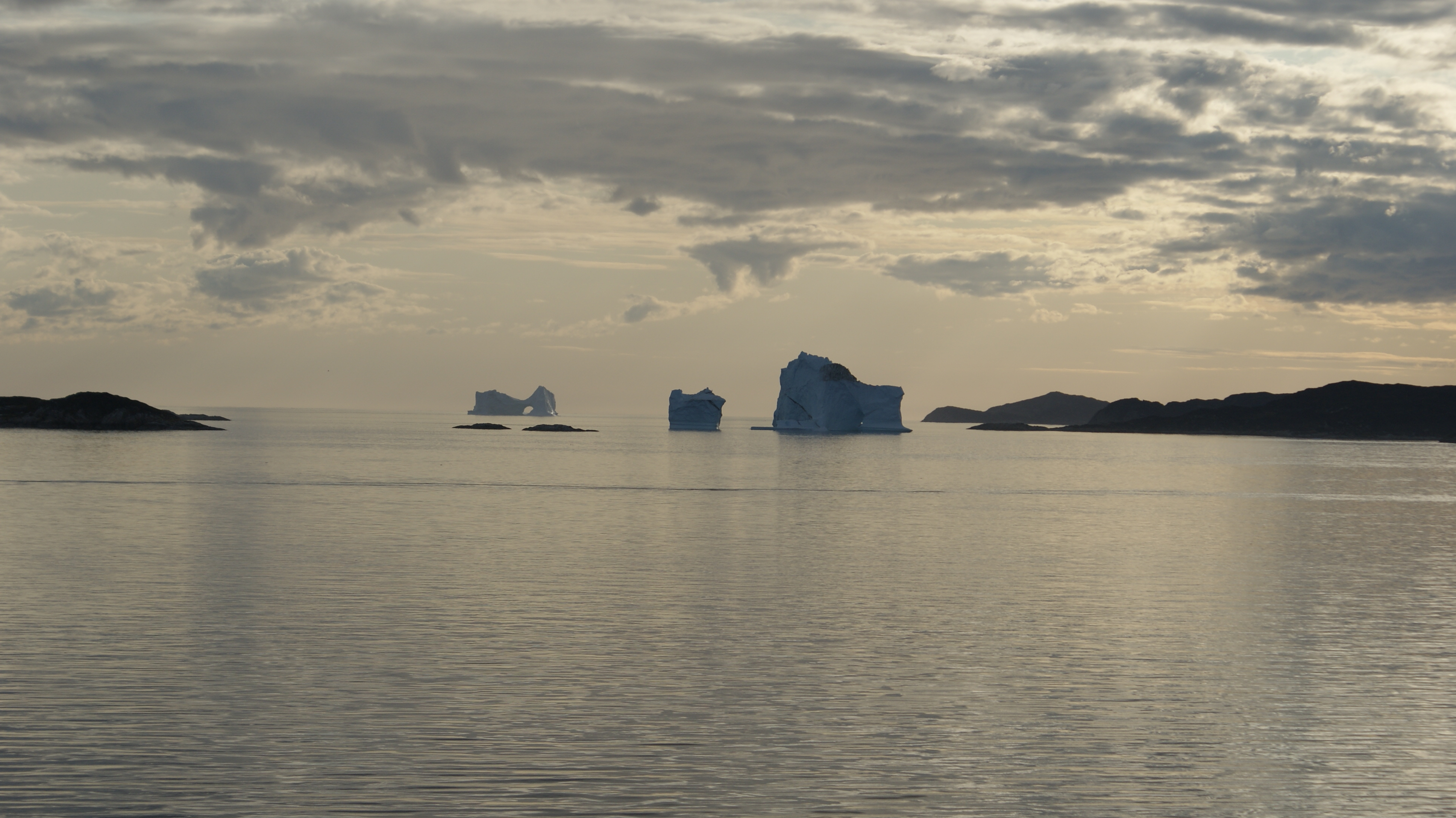 Icebergs stranded in the waterways of the Aasiaat archipelago, Greenland, near the harbor in Aasiaat.